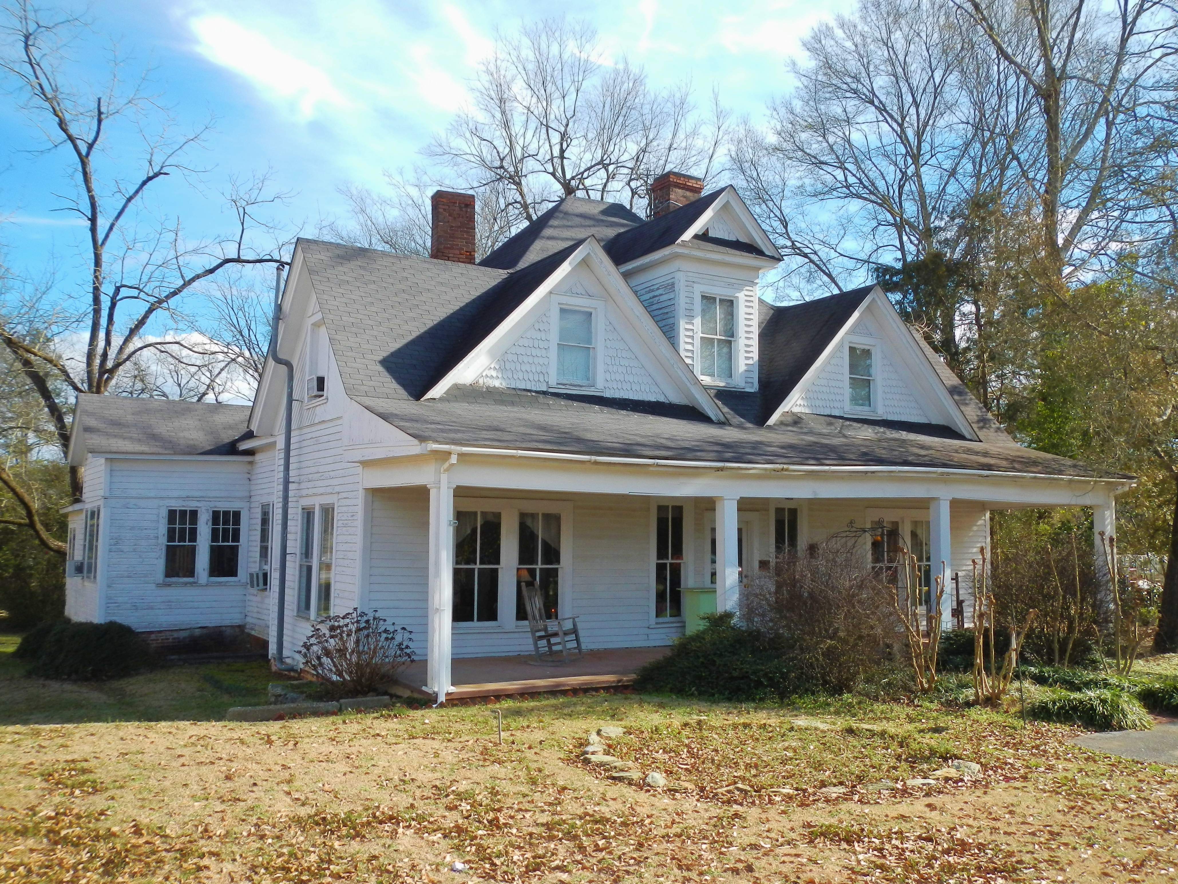 This is a photograph of the John Morgan House (NRHP) in Heflin, Alabama.